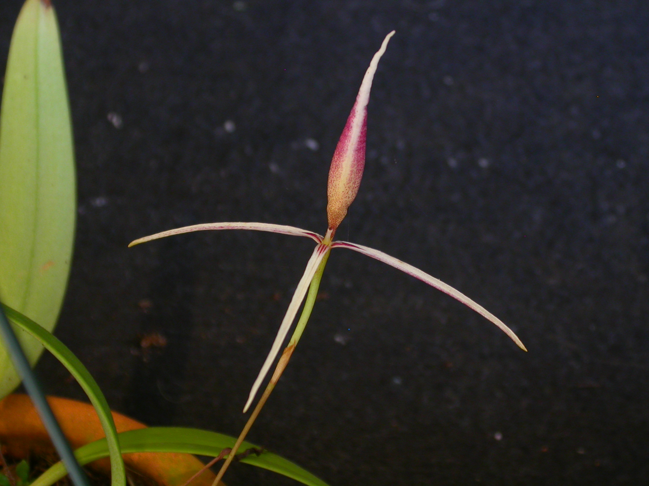 Hapalochilus nitidus